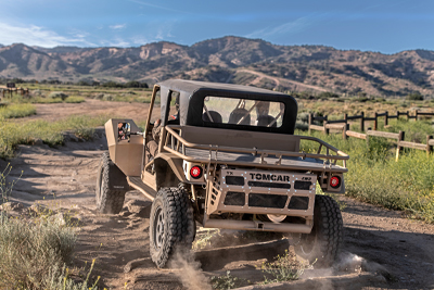 TOMCAR’s fully-welded steel frame and roll cage, fully enclosed aircraft-grade aluminum skid plate, coupled with its four-wheel independent suspension, makes for a safe and smooth ride.